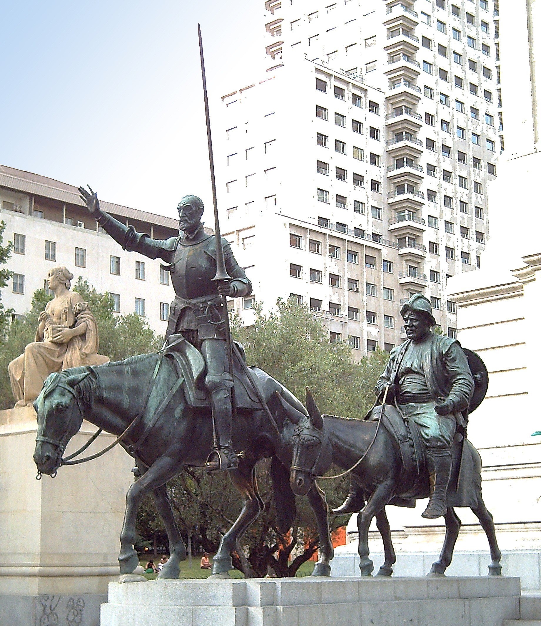 Bronze statues of Don Quixote and Sancho Panza. Made by sculptor Lorenzo Coullaut Valera (1876–1932) between 1925 and 1930. Detail of the monument to Cervantes (1925–30, 1956–57) at the Plaza de España ("Spain Square") in Madrid.